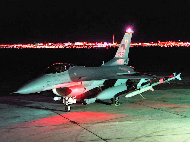 USAF F-16C block 52 #93-0553 from the USAF Fighter Weapons School sits on the ramp at Nellis AFB at night with the Las Vegas "Strip" in the background. The jet sits after being loaded and prepared for a night training flight during course on July 10th, 1996. [USAF photo by SRA Brett K. Snow]